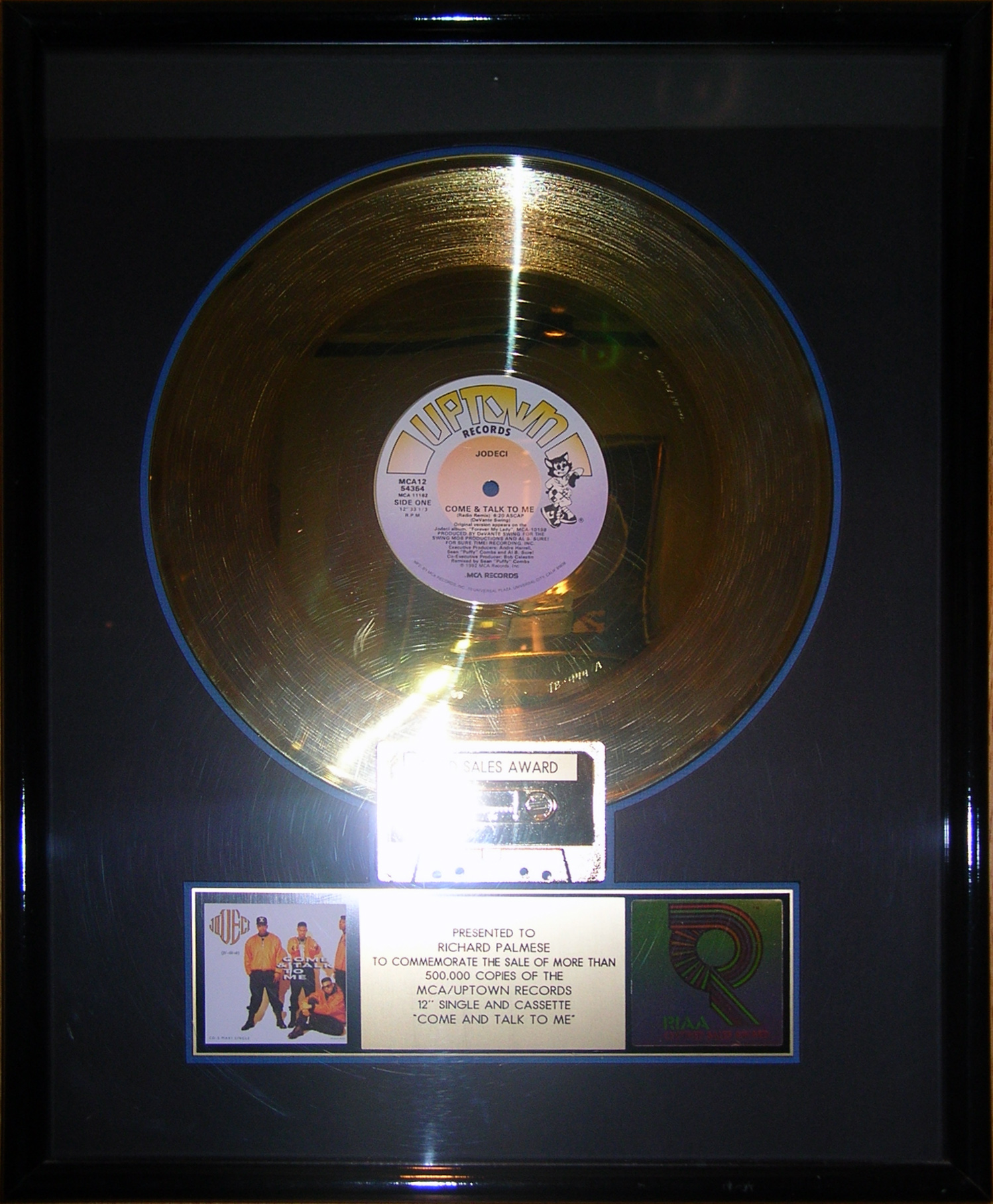 The gold record for Jodeci's single "Come and Talk to Me" on display at the Hard Rock Café, Hollywood in Universal City, California.